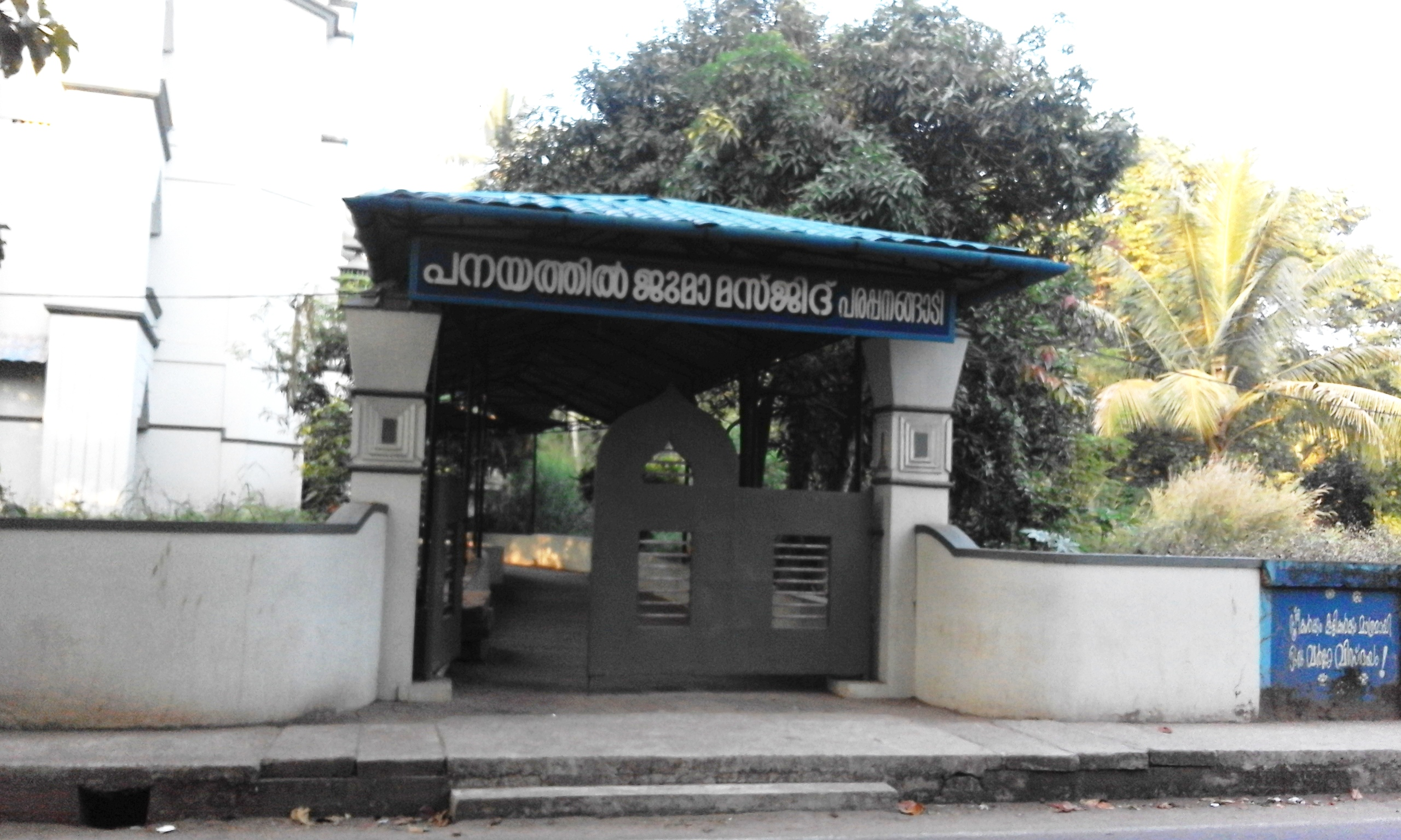 Panayathil Mosque, Parappanangadi